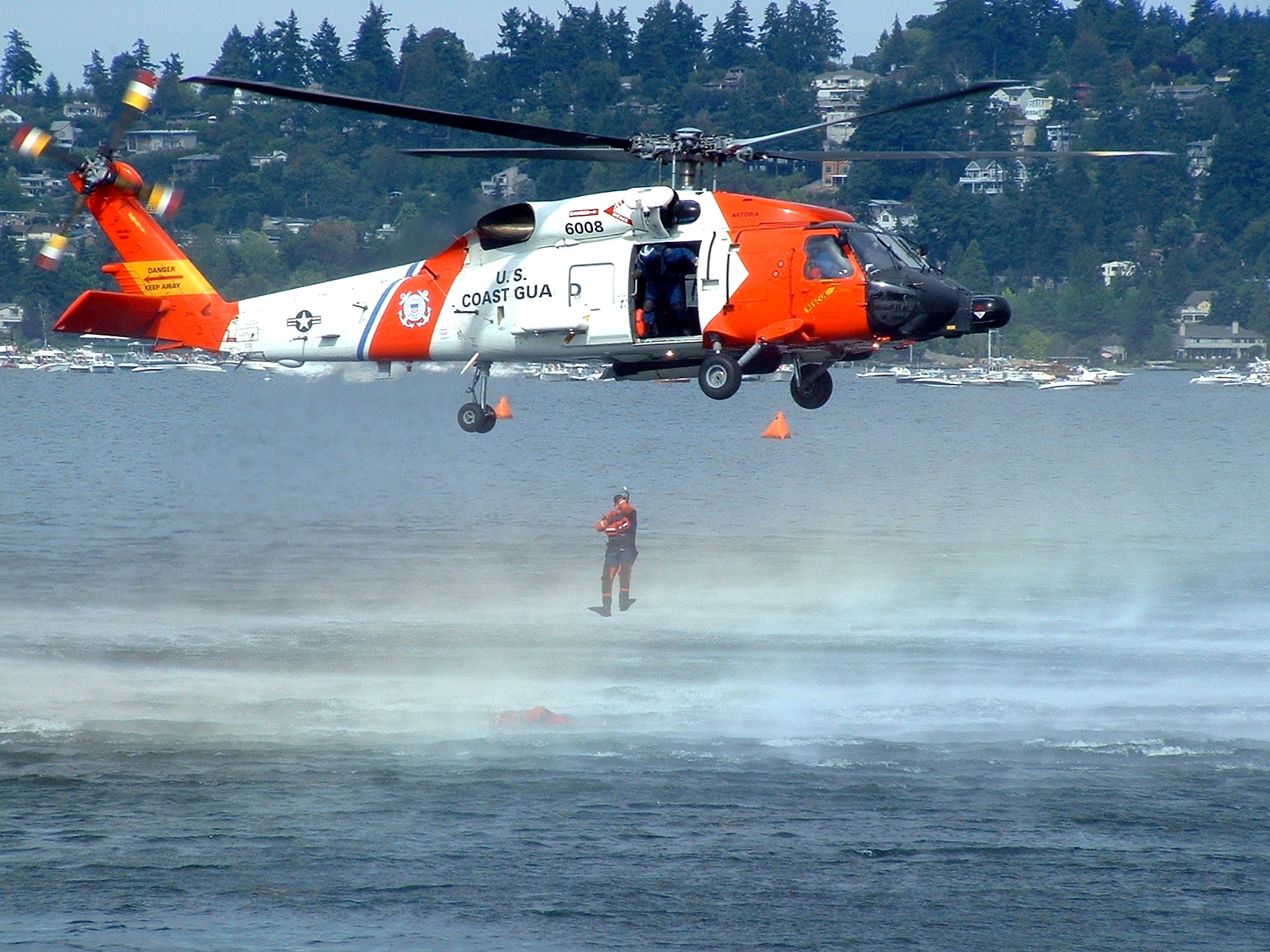 United States Coast Guard rescue diver jumps from a HH-60 Jayhawk during a demonstration at the 2004 Seafair in Seattle, Washington.